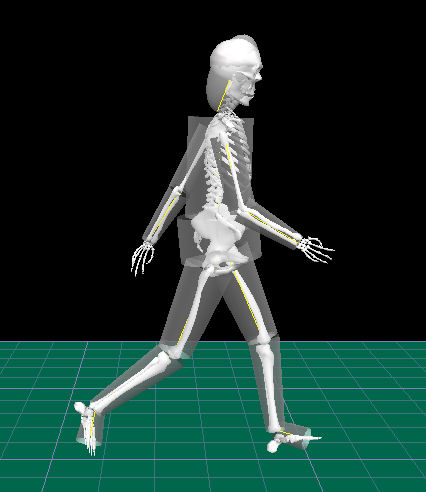 Human body modelled as a system of rigid geometrical bodies during walking. Representative bone images added and scaled to fit inside the rigid bodies.